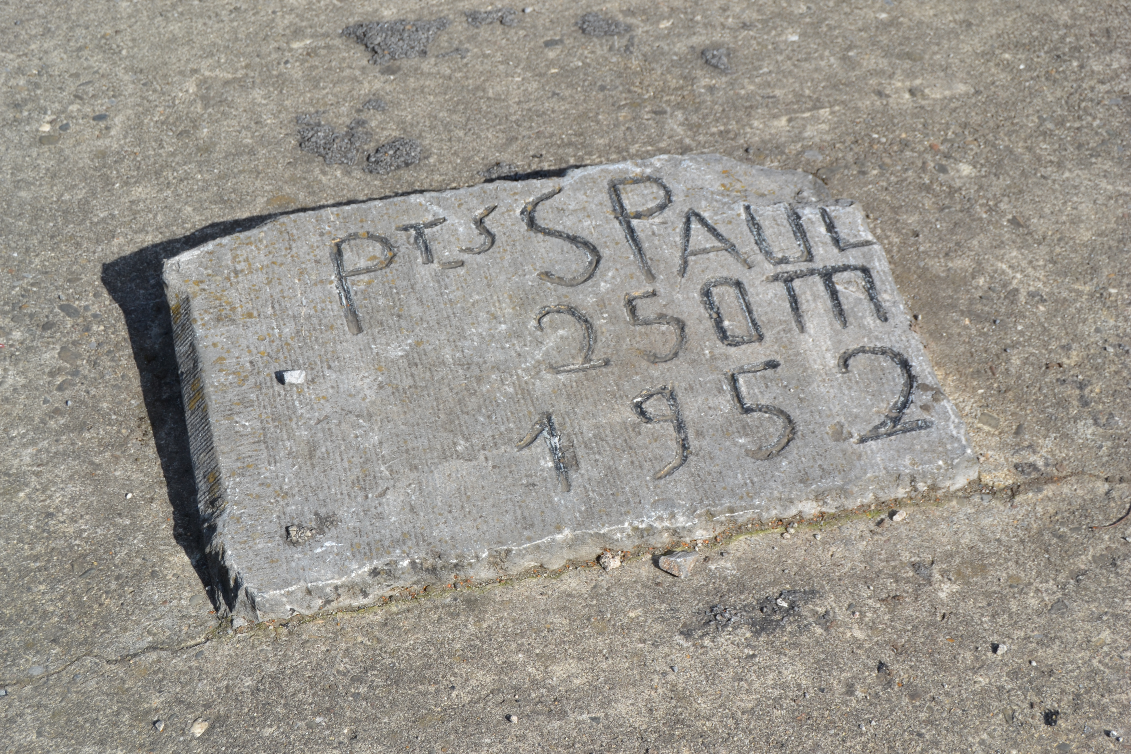 Ancient pit of the Gives coal mine in Huy, Belgium